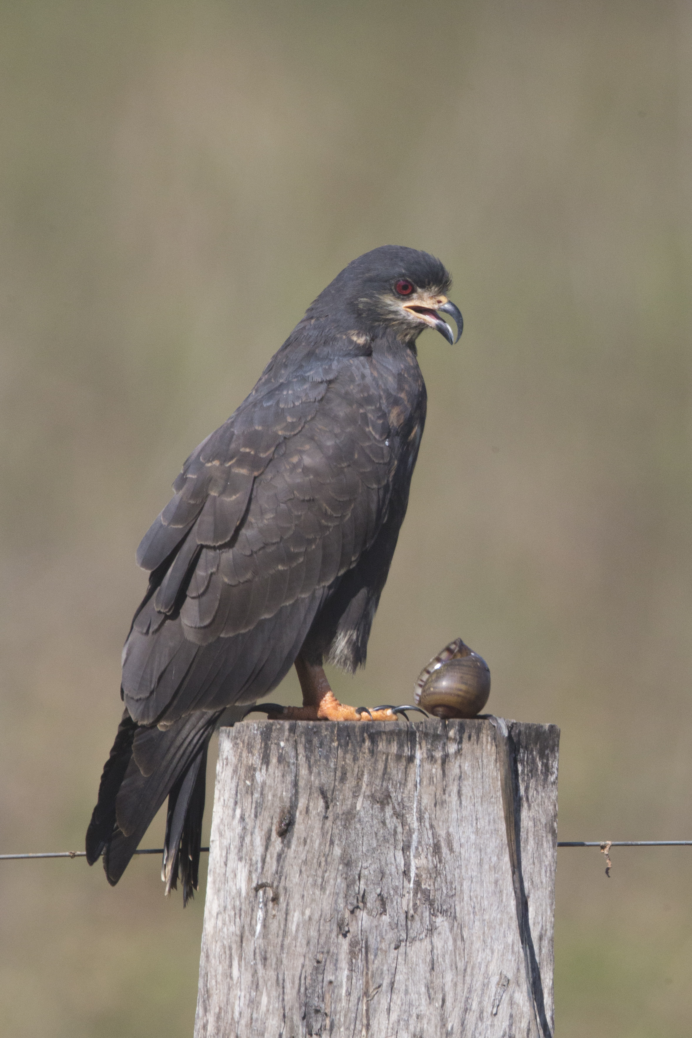 joung male Snail Kite